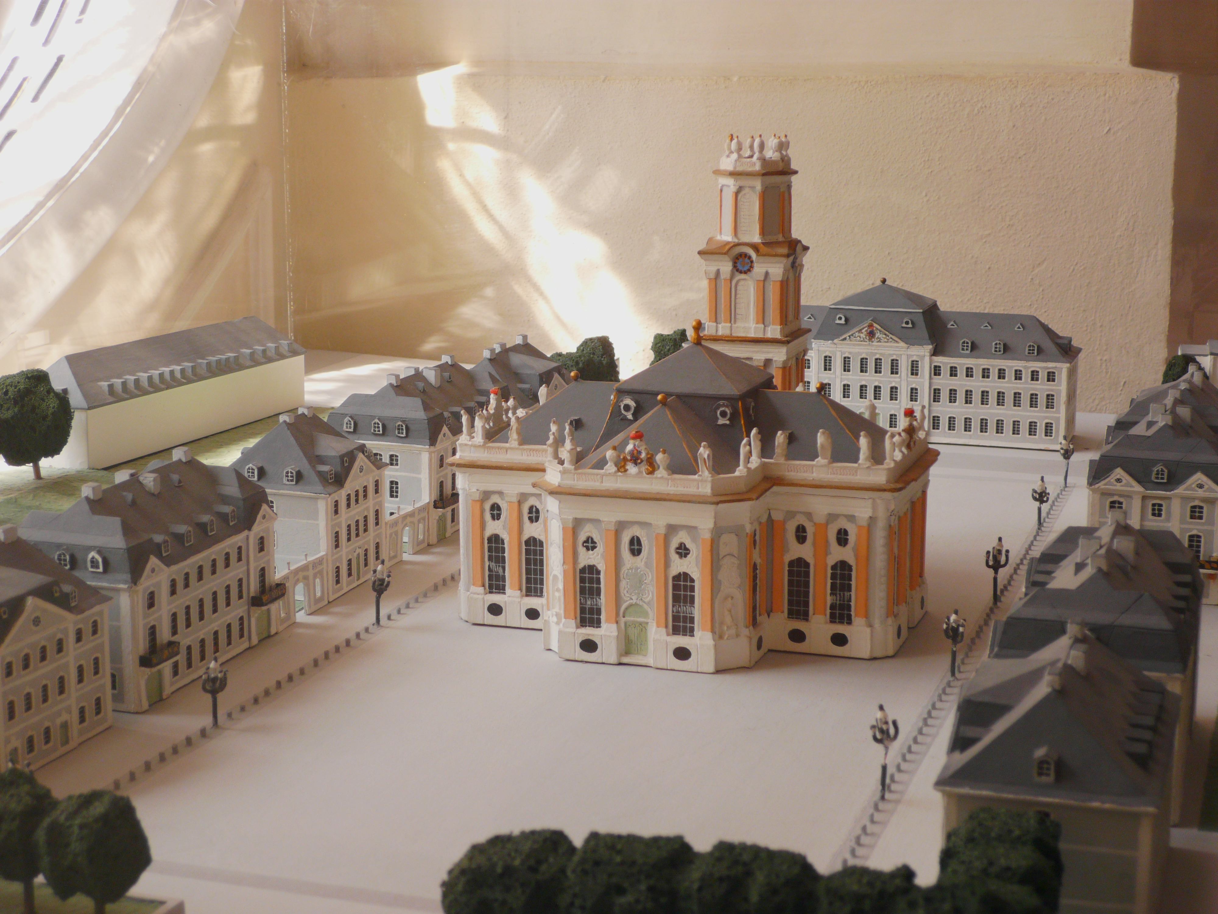 Ludwigskirche in Saarbrücken (model exhibited in the church)